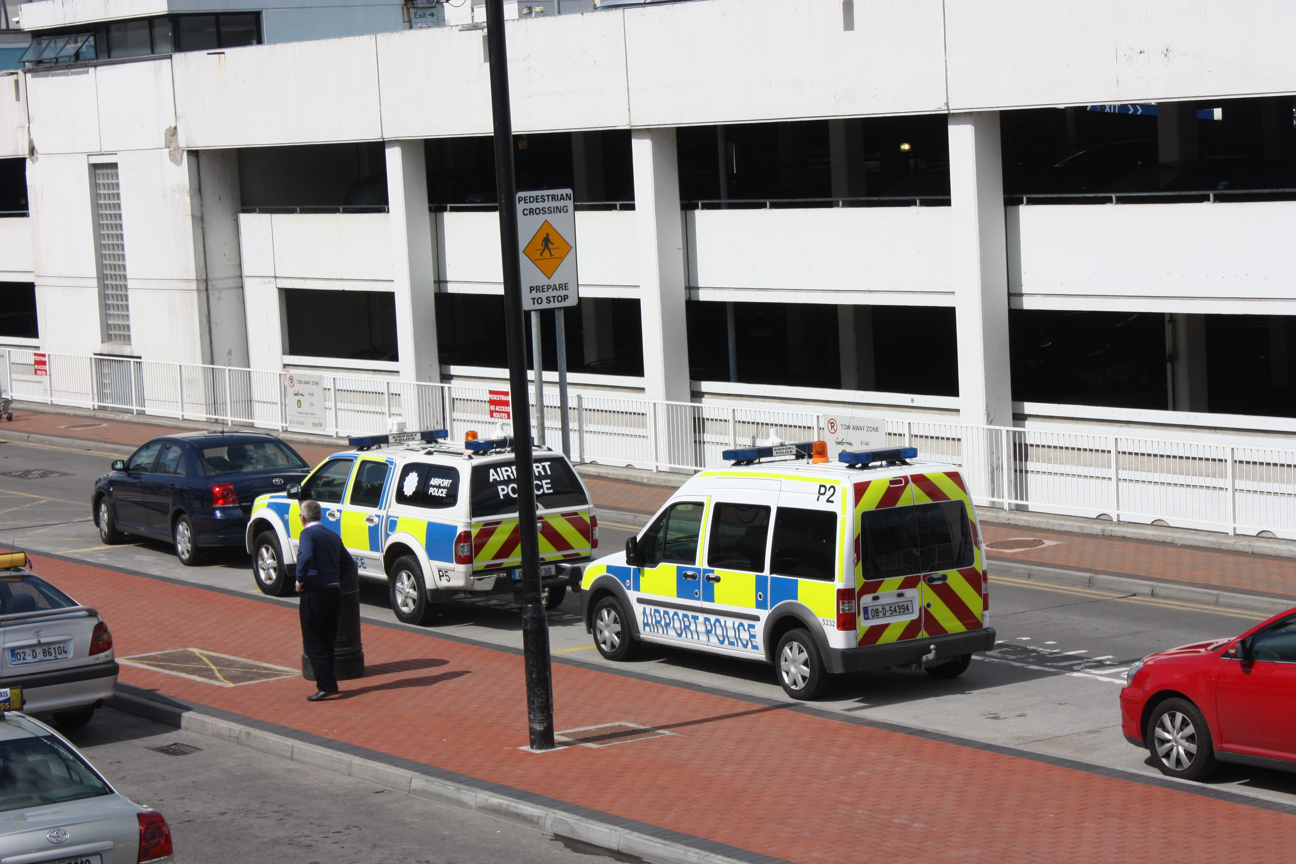 Airport Police at Dublin Airport, Dublin, Ireland, May 2011